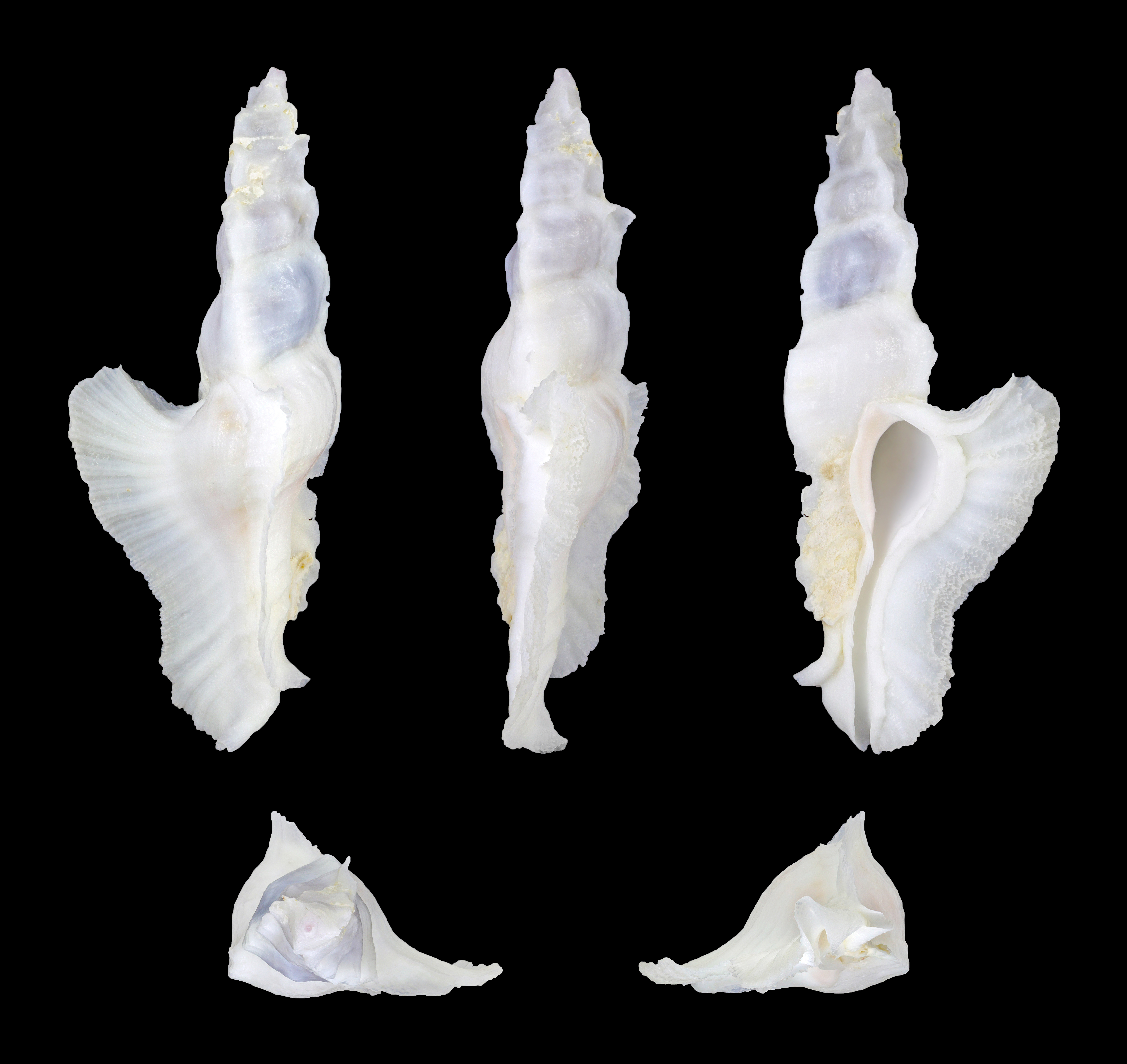 Club Murex; Length 5.6 cm; Originating from the Davao Gulf, Philippines; Shell of own collection, therefore not geocoded. Dorsal, lateral (right side), ventral, back, and front view.